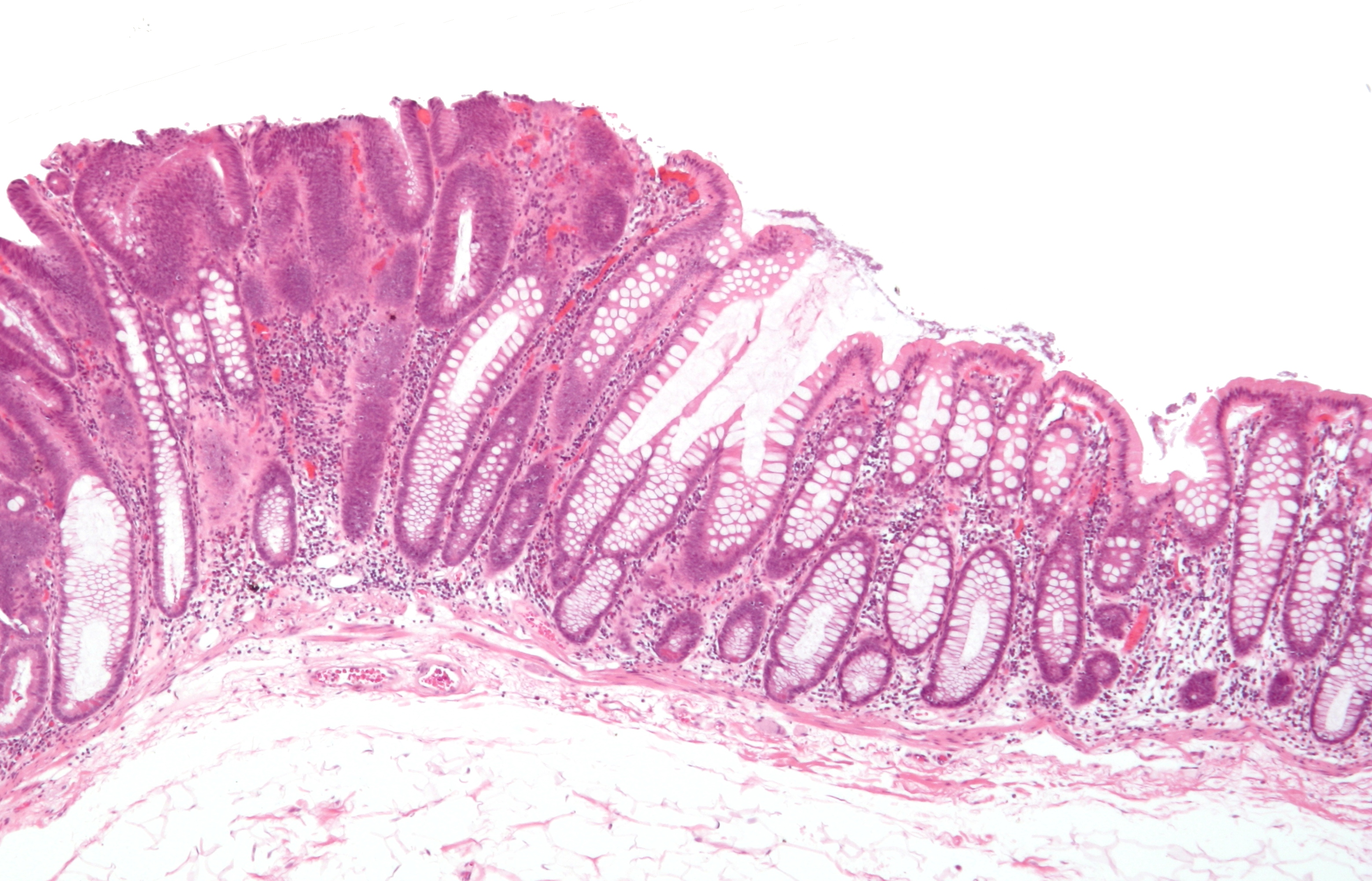 Low micrograph of a colorectal tubular adenoma without high grade dysplasia. H&E stain. The lesional tissue, i.e. dysplastic epithelium, is seen on the left of the image and characterized by: Nuclear hyperchromatism (i.e. dark purple nuclei) - that extends to the surface, Nuclear crowding (i.e. nuclei are bunched-up), Elliptical/cigar-shaped nuclei and loss of goblet cells/reduction in the number of goblet cells. Normal colonic type epithelium is seen on the right of the image and characterized by small round nuclei and abundant goblet cells. Related images The same case: Low mag. Intermed. mag. High mag. Another case: High mag.